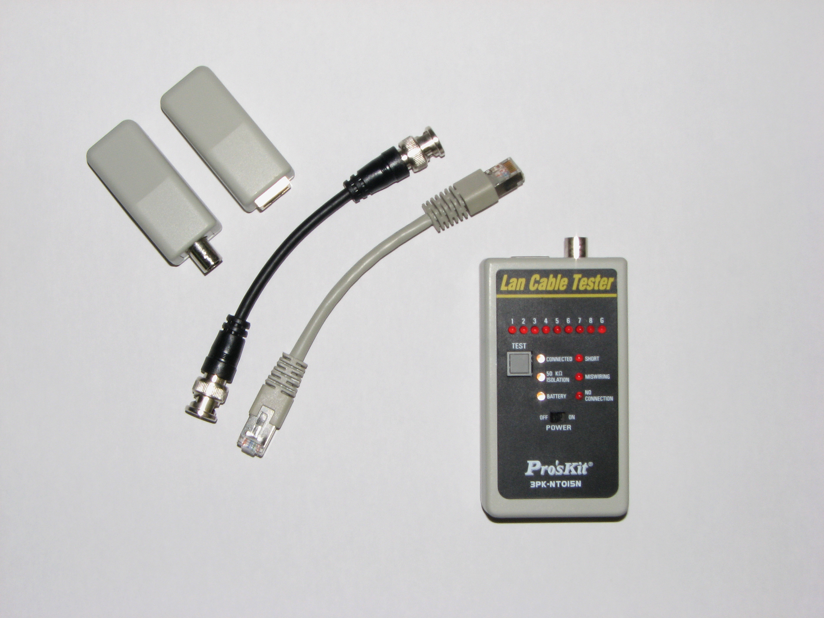 A simple network cable tester.